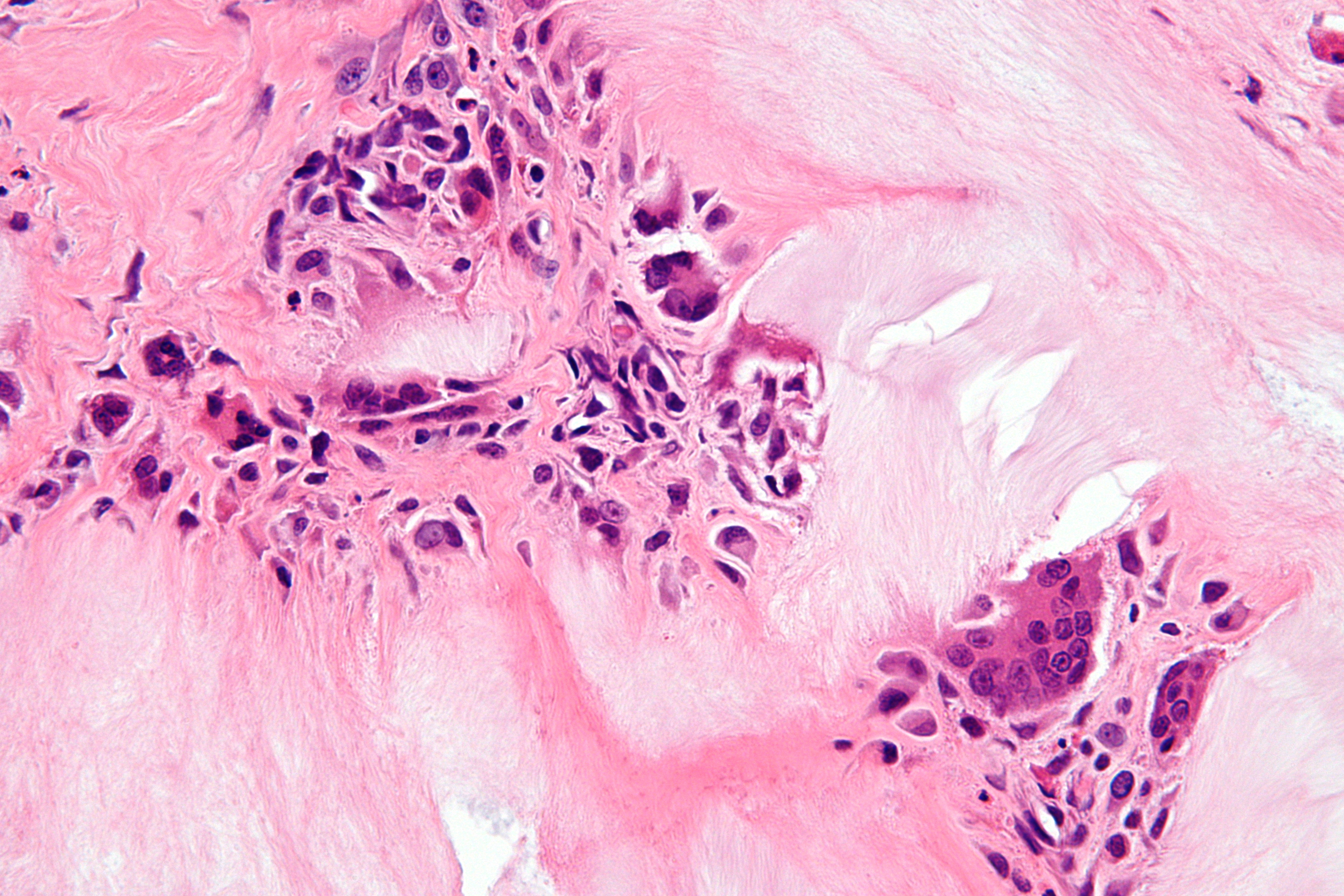 Very high magnification micrograph of a gouty tophus. H&E stain. See also Gout. Tophus. Related images Low mag. Intermed. mag. High mag. Very high mag.